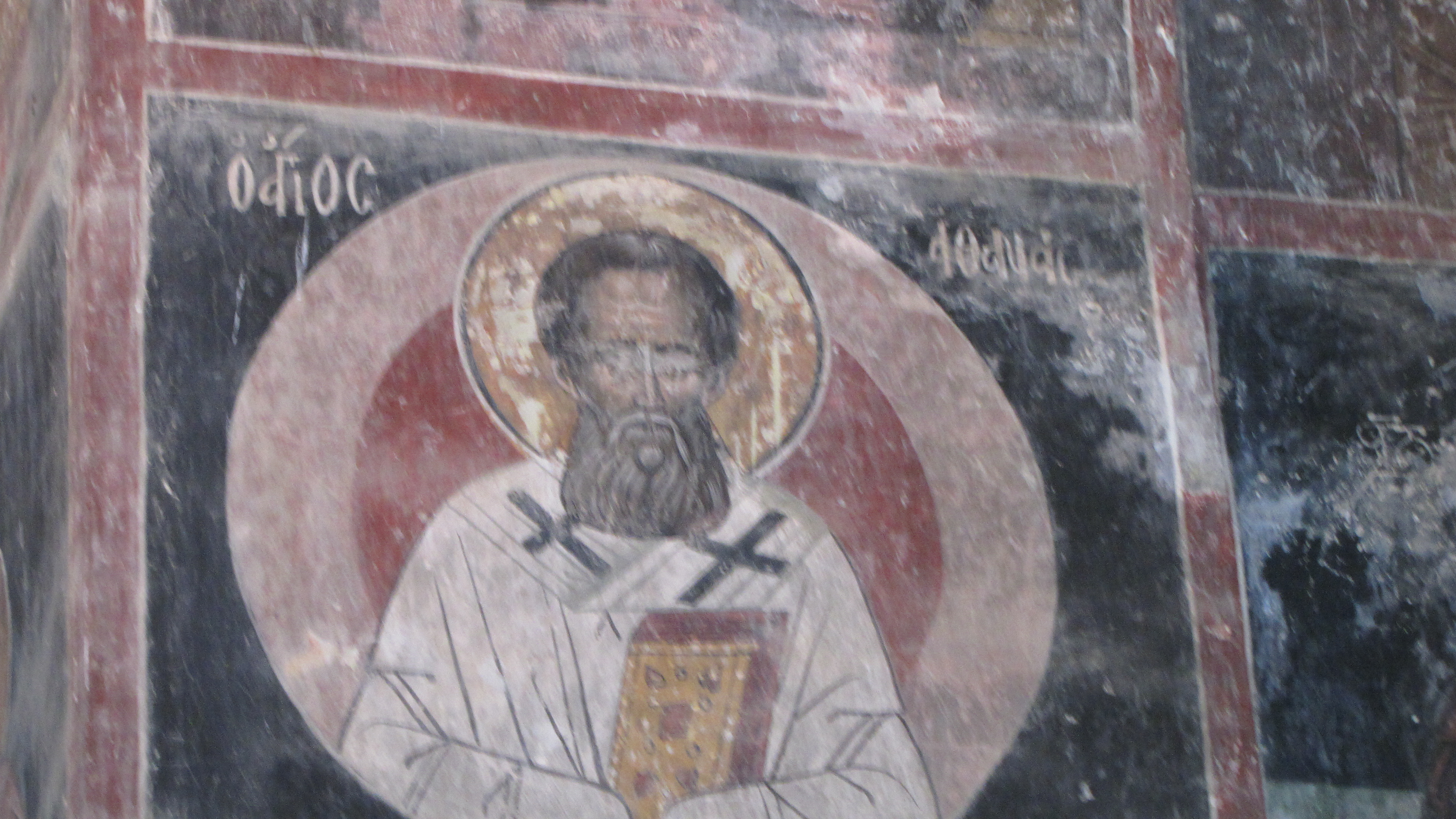 Church of the Archangels, Gremi